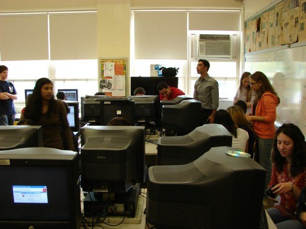 Bronx Science students at work in the Science Survey Publication room. Taken Oct. 2006, Ryan Dellolio.